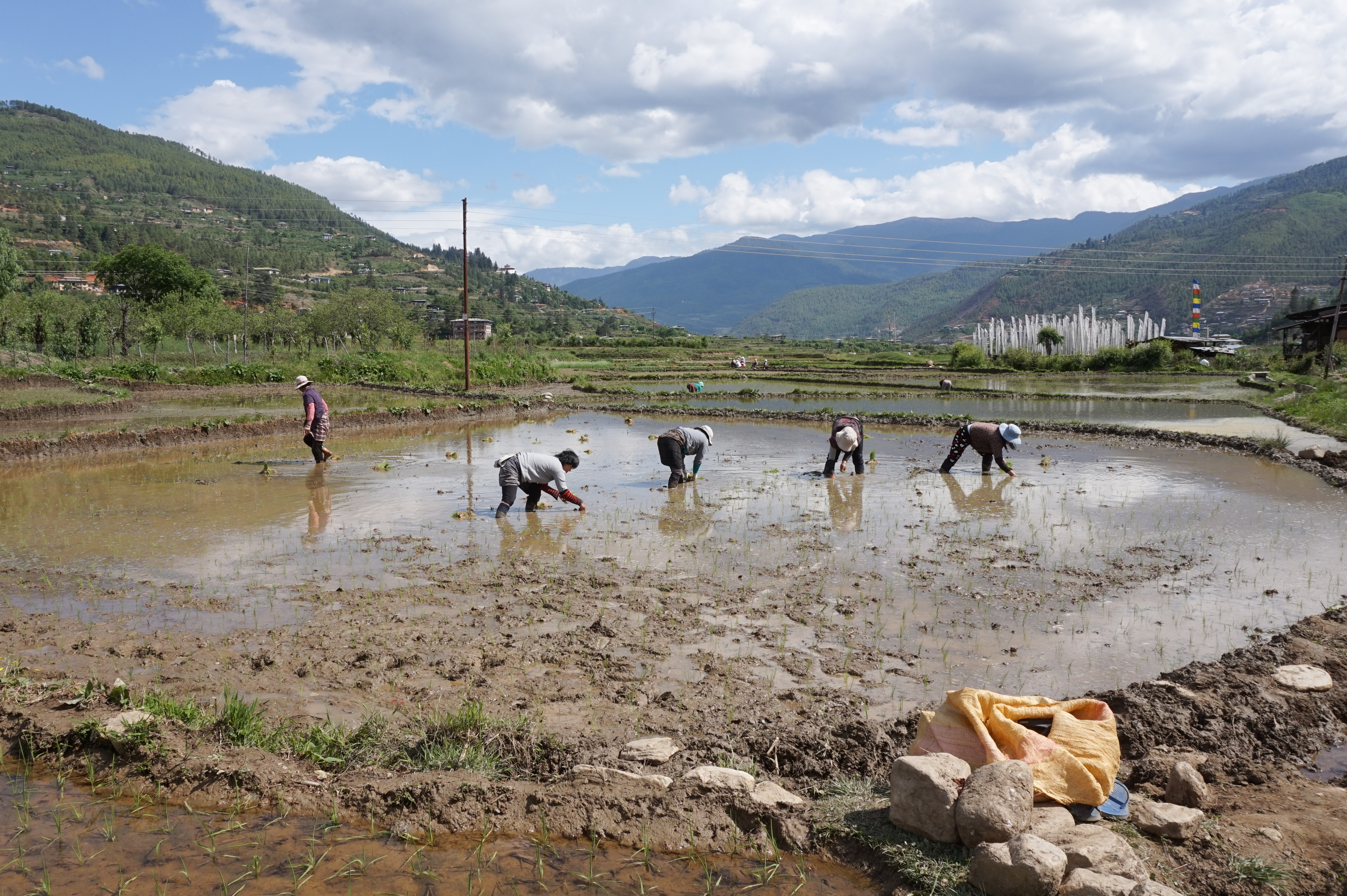 Rice planting in Paro, Bhutan